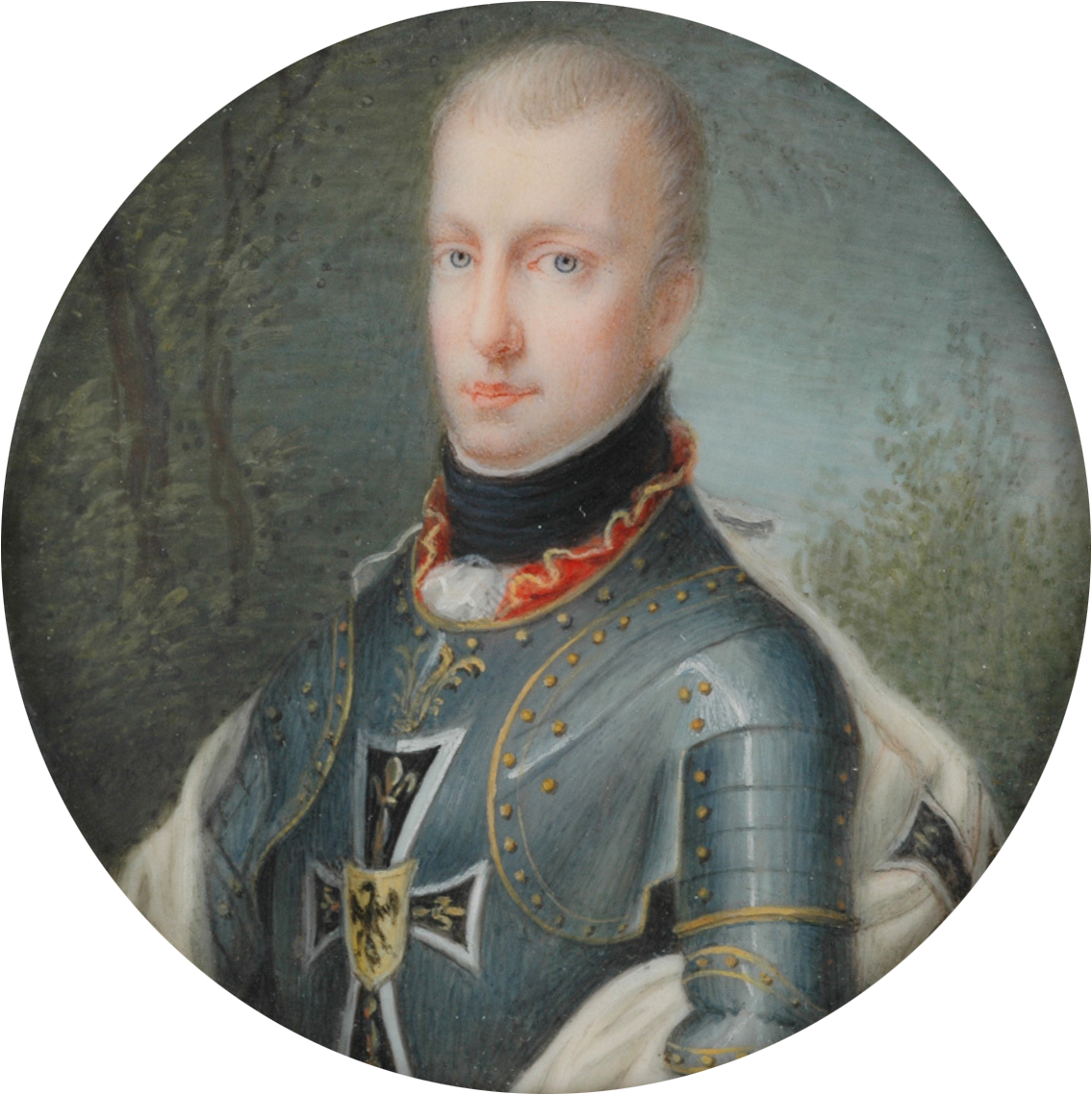 Carl Ludwig Hummel de Bourdon (1769-1840) "Archduke Anton Viktor of Austria" Provenance: Swiss private collection